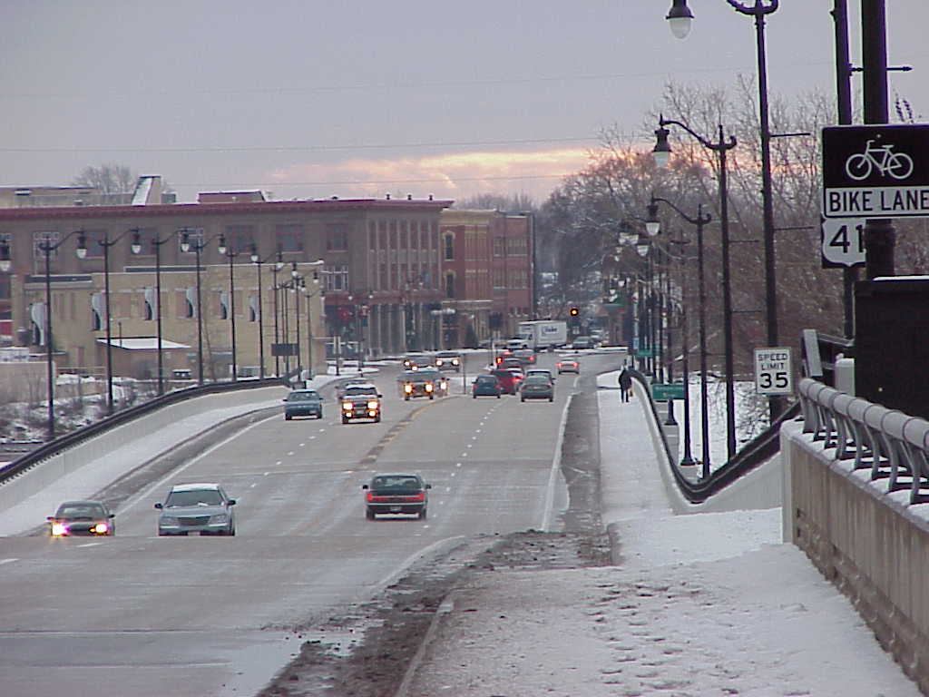 The Interstate Bridge between Marinette, Wisconsin and Menominee Michigan the day after it opened to traffic. The bridge was replaced in 2004–05 and carries US Highway 41 over the Menominee River and across the state line.